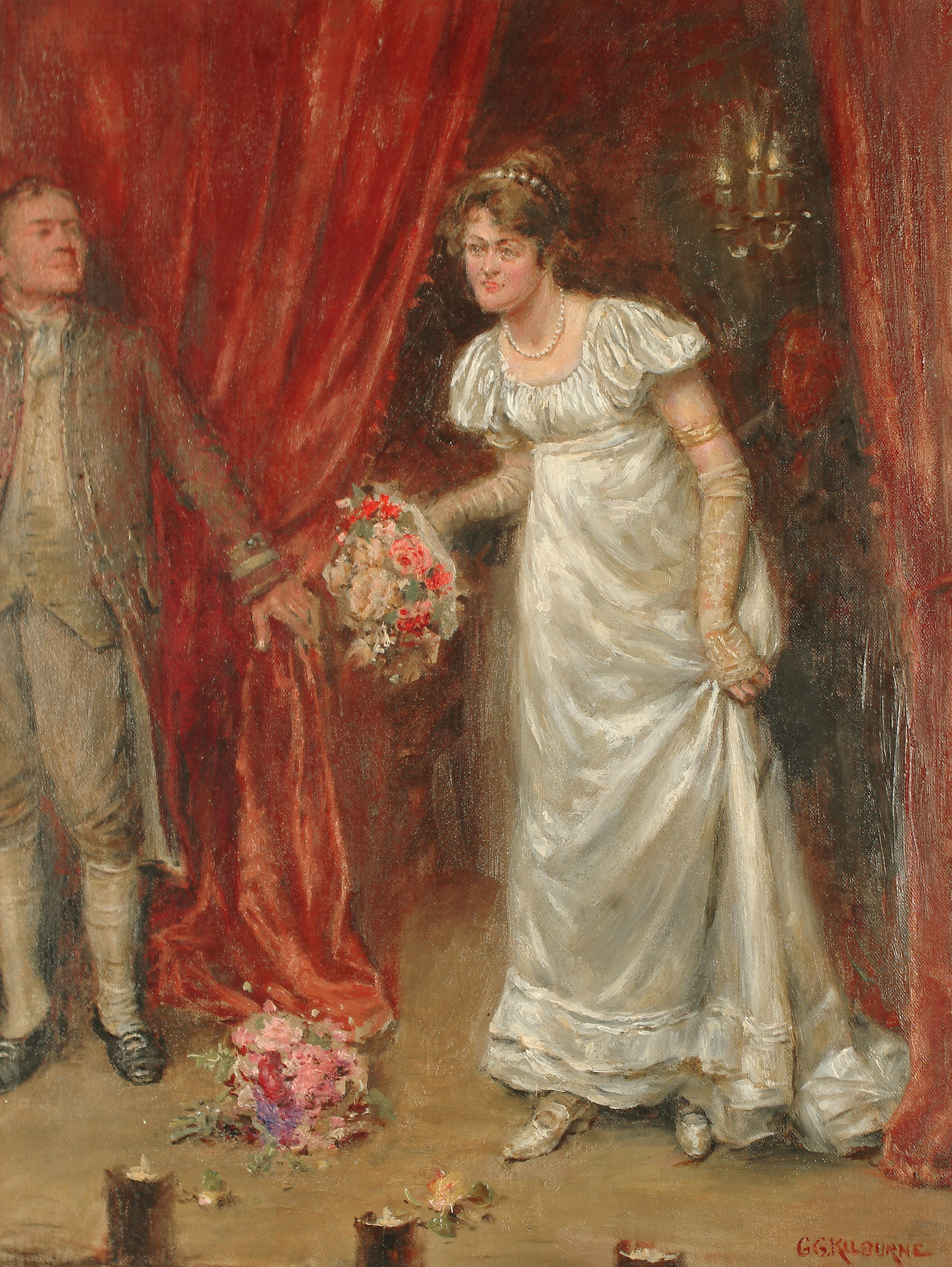 The final bow; signed 'G.G.KILBURNE', oil on canvas; 45.5 x 35.5